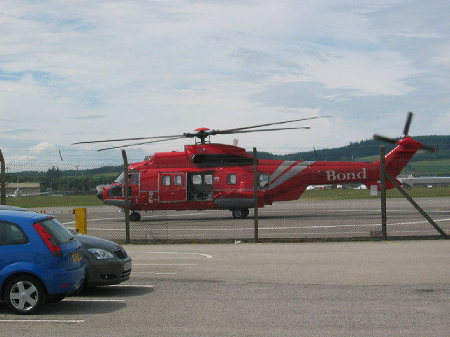 The heliport at Aberdeen Airport, Scotland.